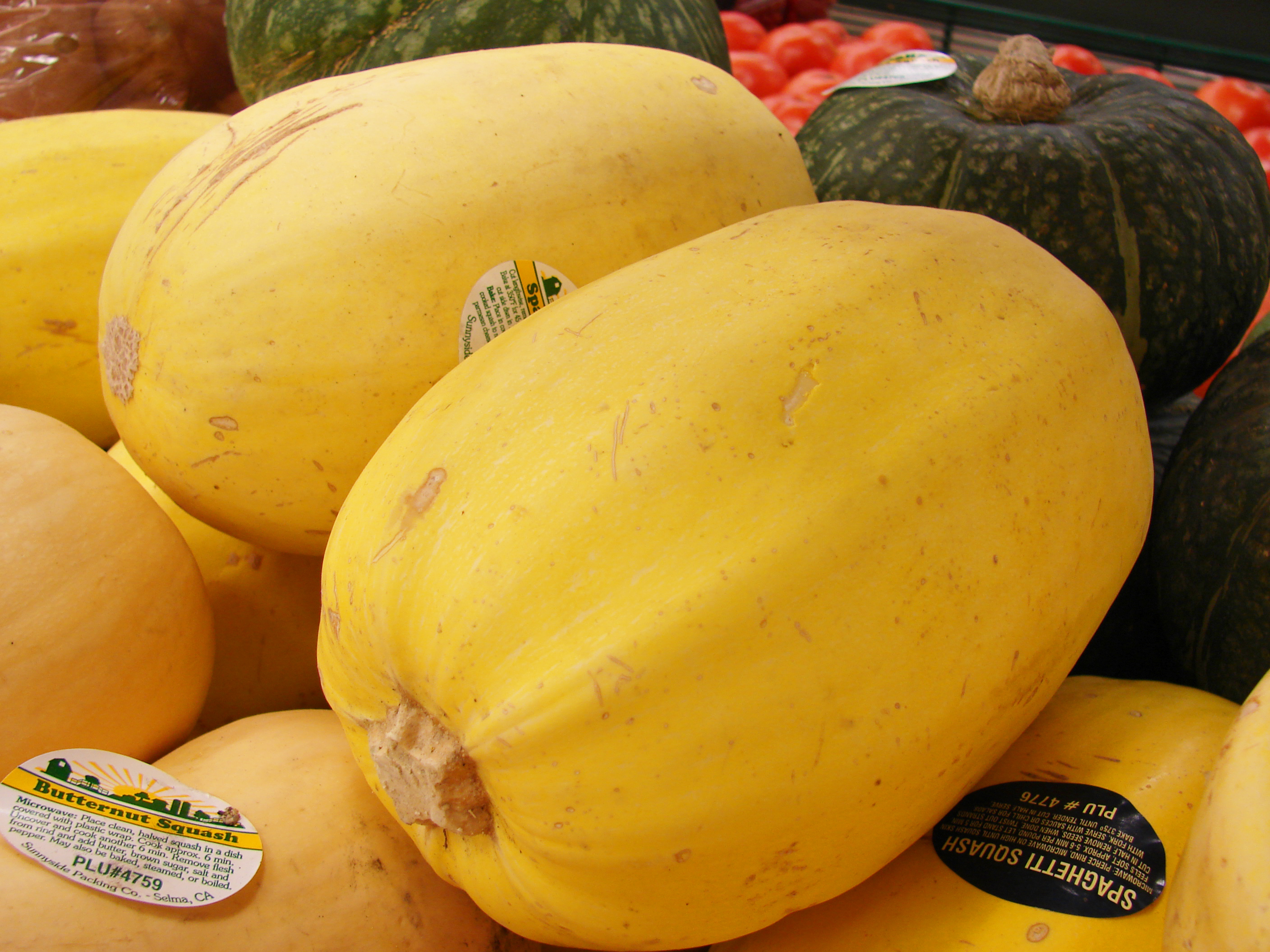 Cucurbita pepo (spaghetti squash). Location: Maui, Foodland Pukalani